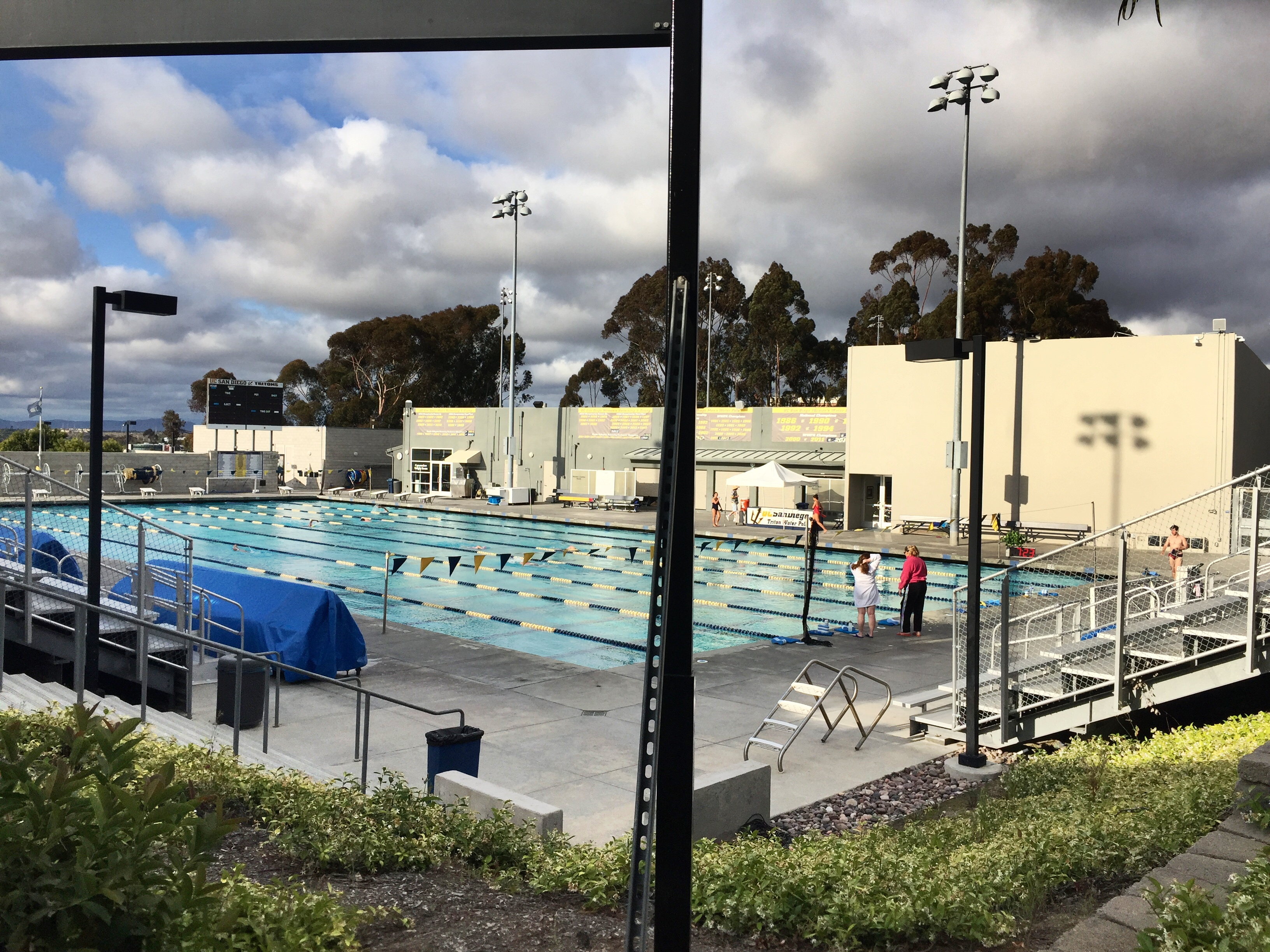 The west pool and weight room at Canyonview Aquatics Center, University of California, San Diego in La Jolla, California.